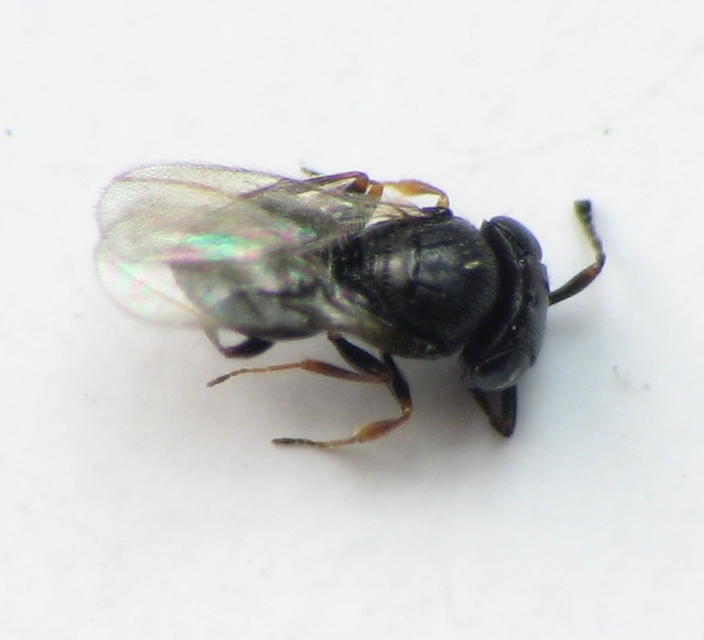 Stinkbug egg parasitoid, Trissolcus euschisti, female. Size: 1-1.5 mm. Churchville Nature Center, Bucks County, Pennsylvania, USA.